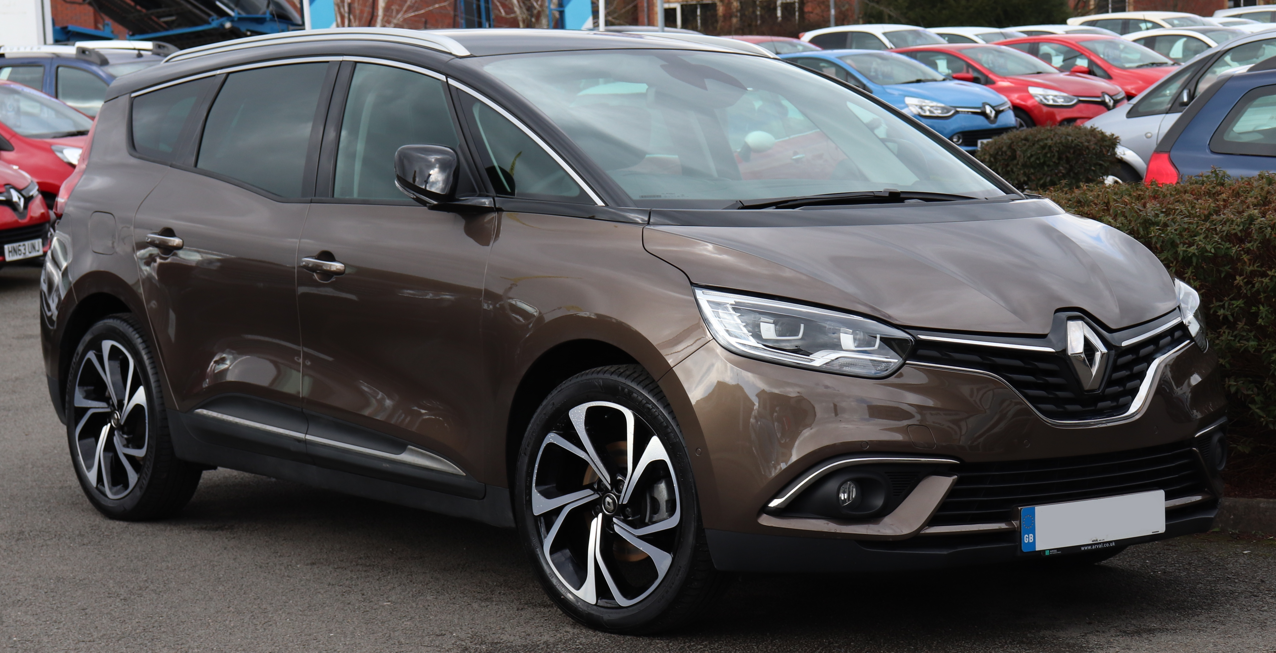 2017 Renault Grand Scenic SIG NAV DCi 1.5 Front Taken in Leamington Spa